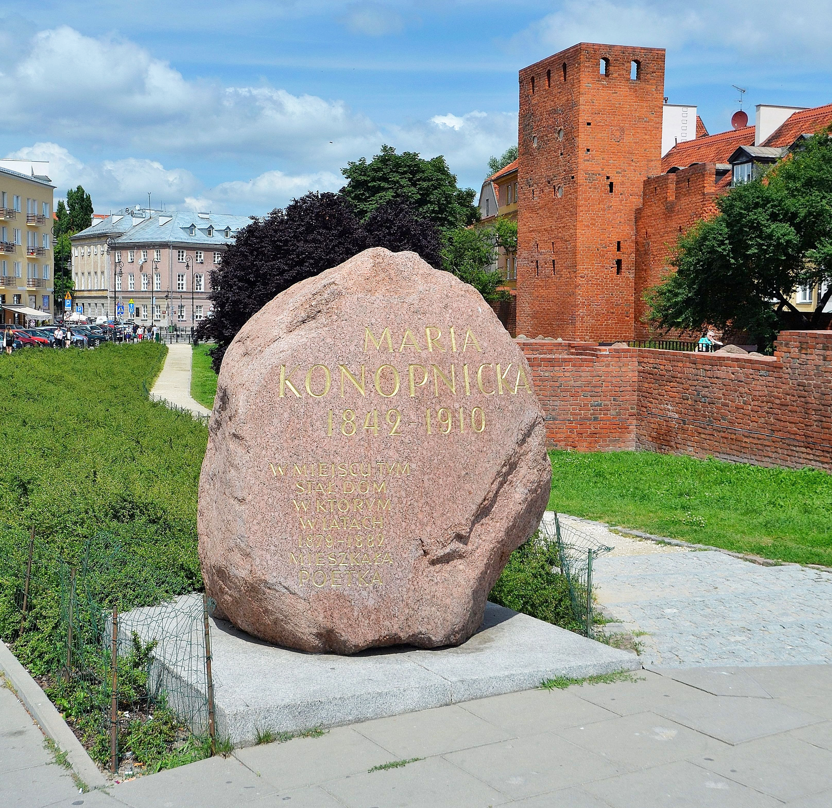 Stone at the corner of Piekarska nd Podwale Streets marking the place of the tenement house in which in 1879-1882 lived Maria Konopnicka